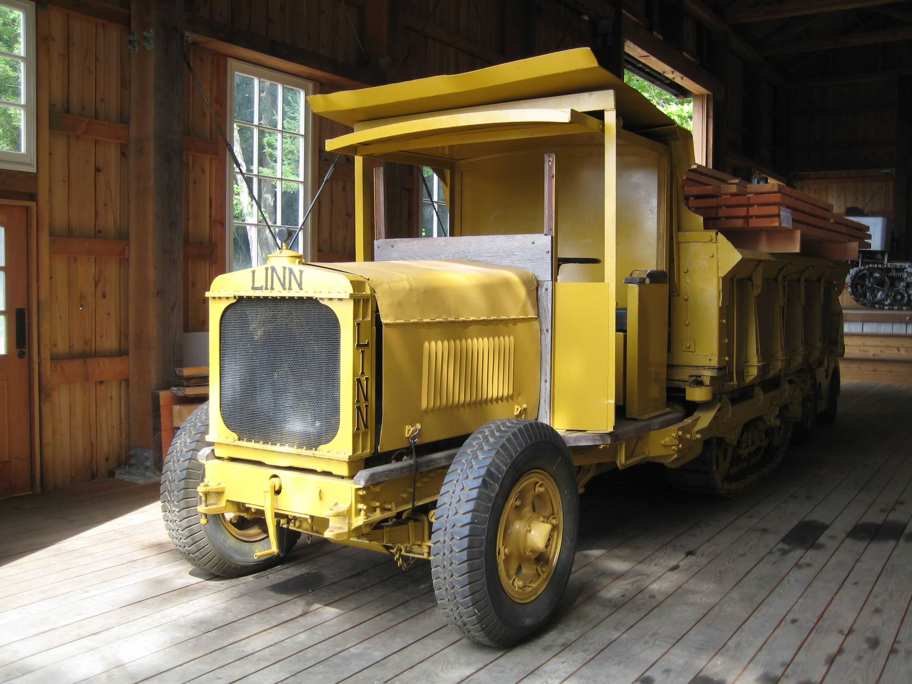 Linn tracked dump truck, originally used to build the Grand Coulee Dam, then sold to Polson Lumber Company, who used it to build railroads in the forest. Now in the Polson Museum of logging history in Grays Harbor County, Washington. The front wheels look as though they were changed quite a while later.